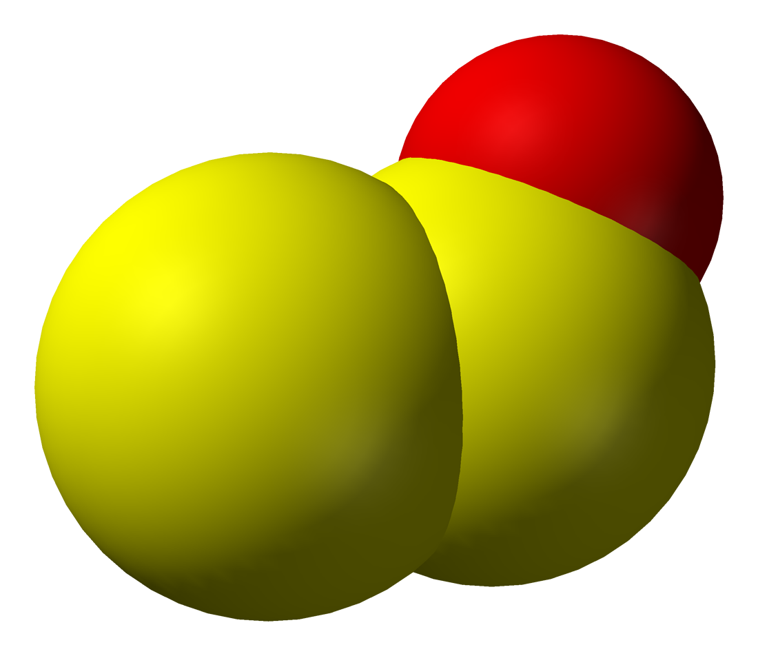 Space-filling model of the disulfur monoxide molecule, S2O.